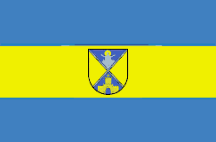 Flag of Skwirski Raion, Ukraine.